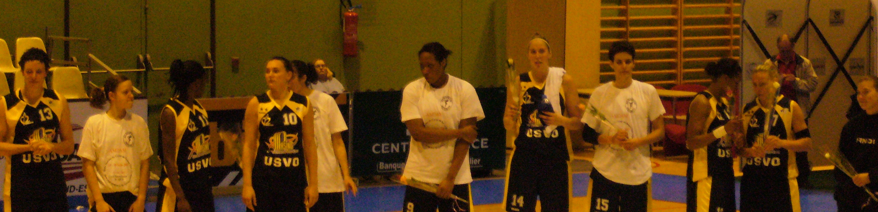 French women basketball team of Union Sportive Valenciennes Olympic in october 2007 in Clermont-Ferrand